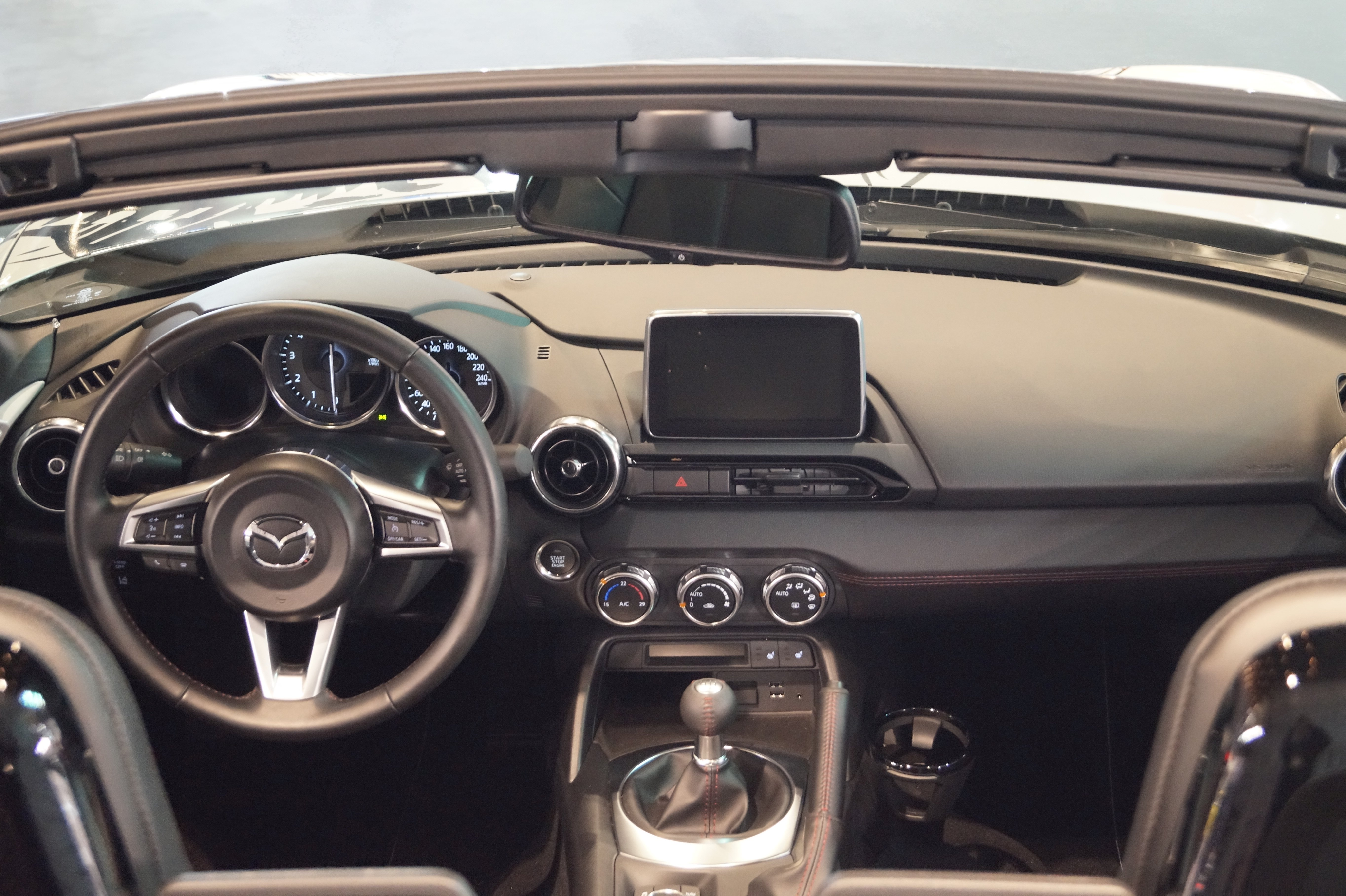 The making of this document was supported by Wikimedia Polska Association, within Wikigrant no. WG 2016-10. Wnętrze Mazdy MX-5 na Motor Show Poznań 2016